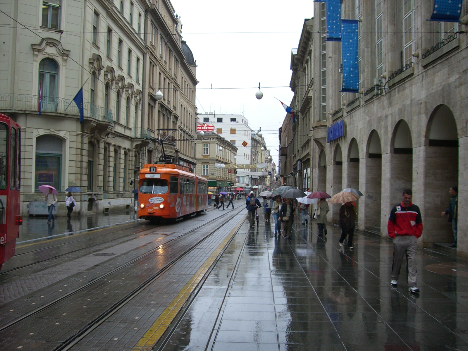 Ilica about No. 3 to the left, and No. 2 to the right, Zagreb. Left the Croatian Central Bureau of Statistics (DZS) and the right department store Nama.